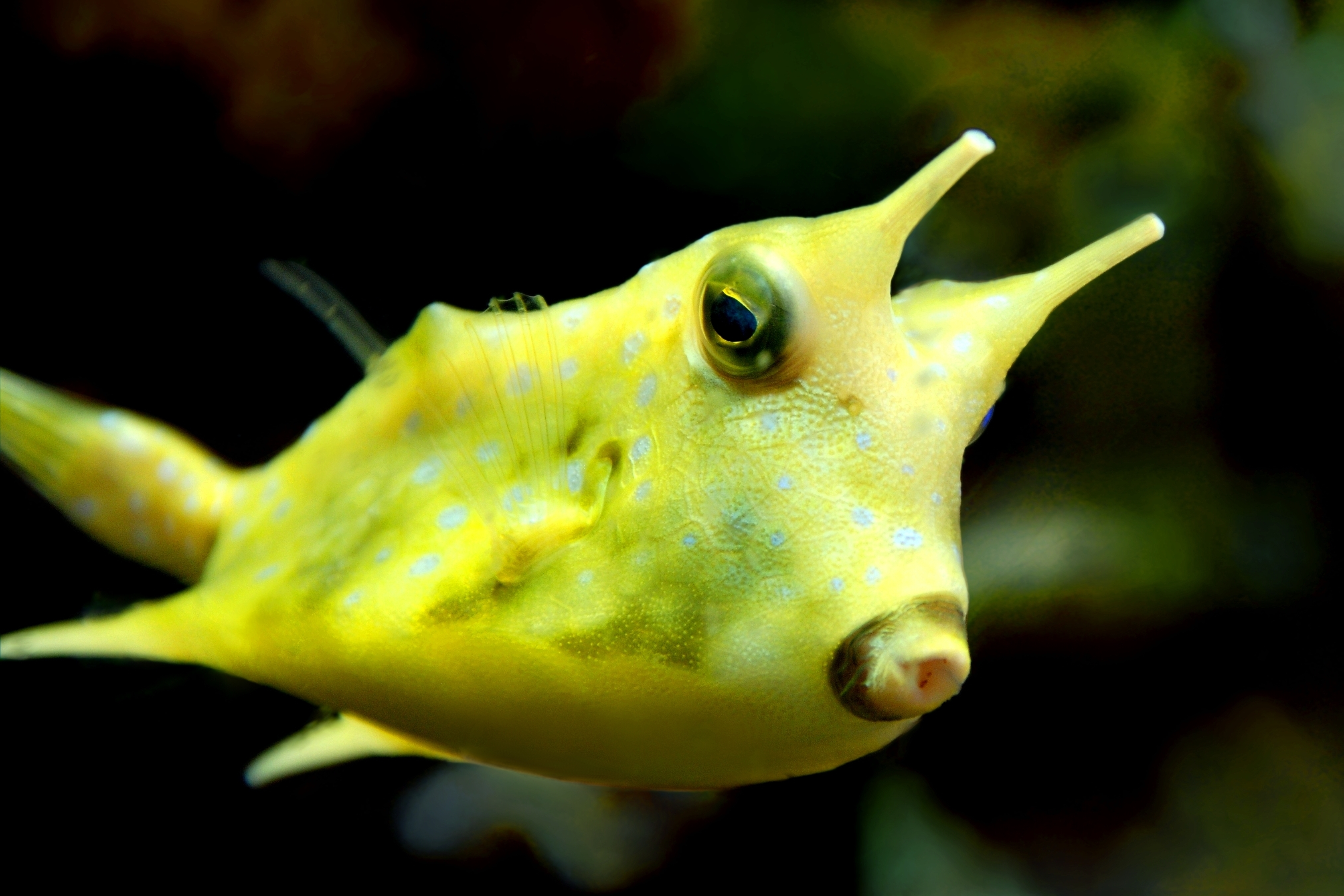 Longhorn cowfish (Lactoria cornuta) taken in an aquarium in the Natural History Museum of Vienna